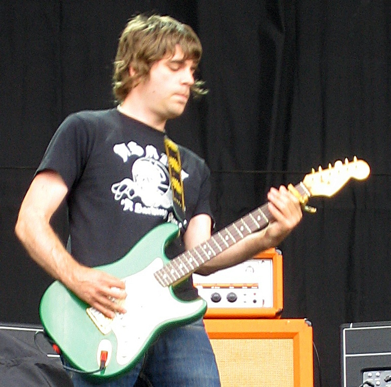 Paul Banks of Shed Seven performing at the V Festival 2008, Weston Park